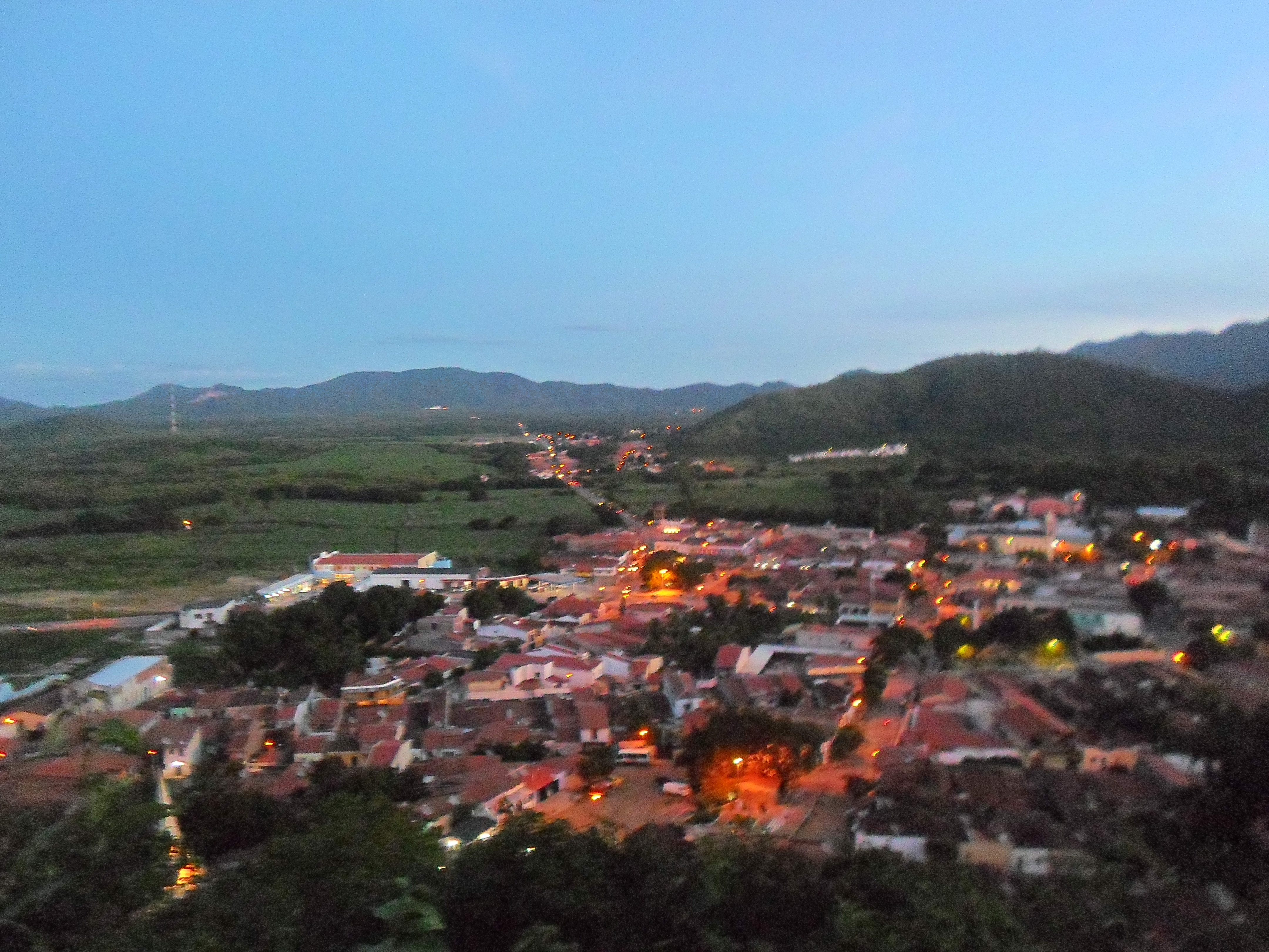 Redenção